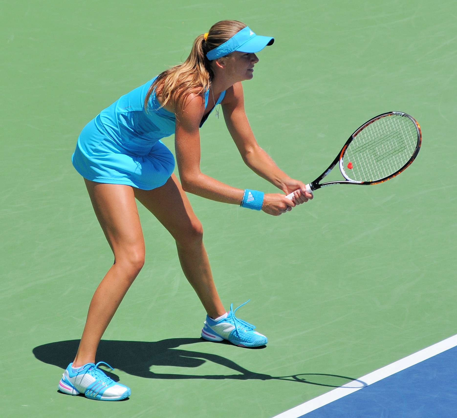 Daniela Hantuchová at the Mercury Insurance Tennis Open 2011